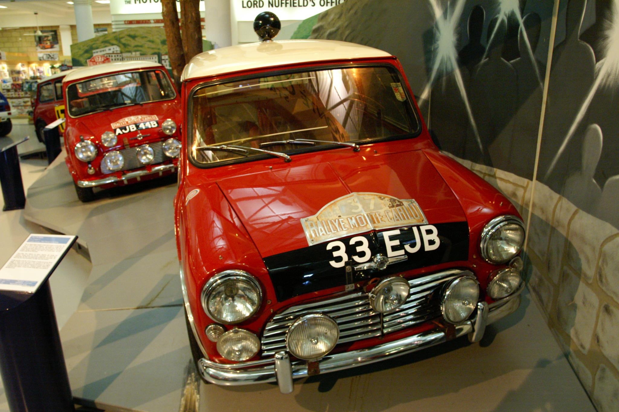 Heritage Motor Centre, Gaydon, Warwickshire Paddy Hopkirk?s 1964 Monte Carlo rally winner